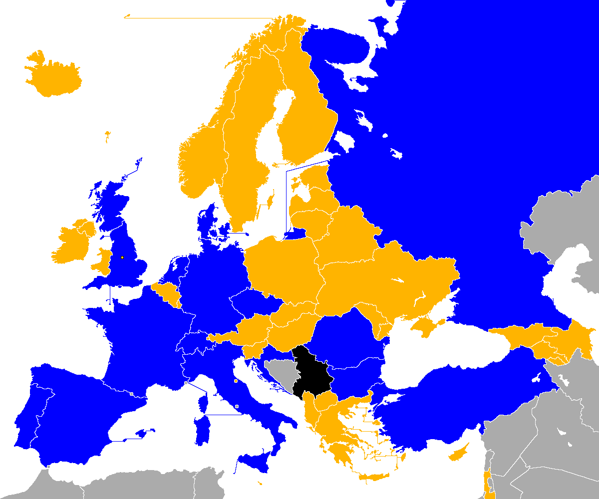 Euro 1996 qualifiers